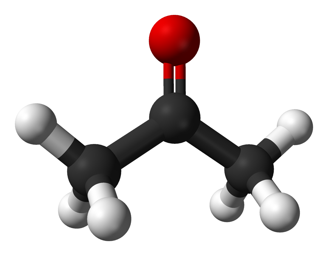 Ball-and-stick model of the acetone molecule, C3H6O. Bond lengths and angles from CRC Handbook, 88th edition. Image generated in Accelrys DS Visualizer.